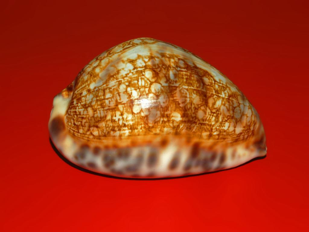 Mauritia grayana